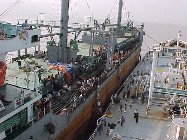 Offloading, or lightering, grain from an oil tanker.